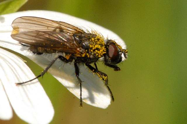 Delia cardui from Commanster, Belgian High Ardennes .